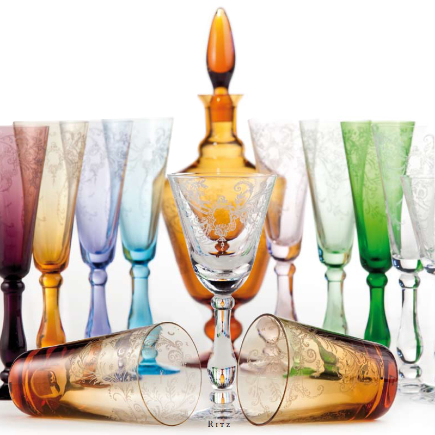 Glasses & decanter from Portieux Crystal manufactory for the Ritz hotel in Paris